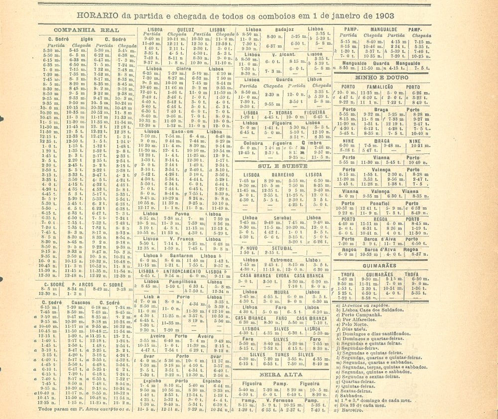 Timetable of all the passenger trains in broad gauge and in the Guimarães railway, in Portugal, in 1st January 1903. This image was published on the Gazeta dos Caminhos de Ferro magazine No. 361, of the 1st January 1903, and scanned by the Hemeroteca Municipal de Lisboa.